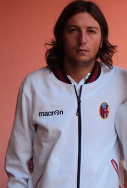 paponi